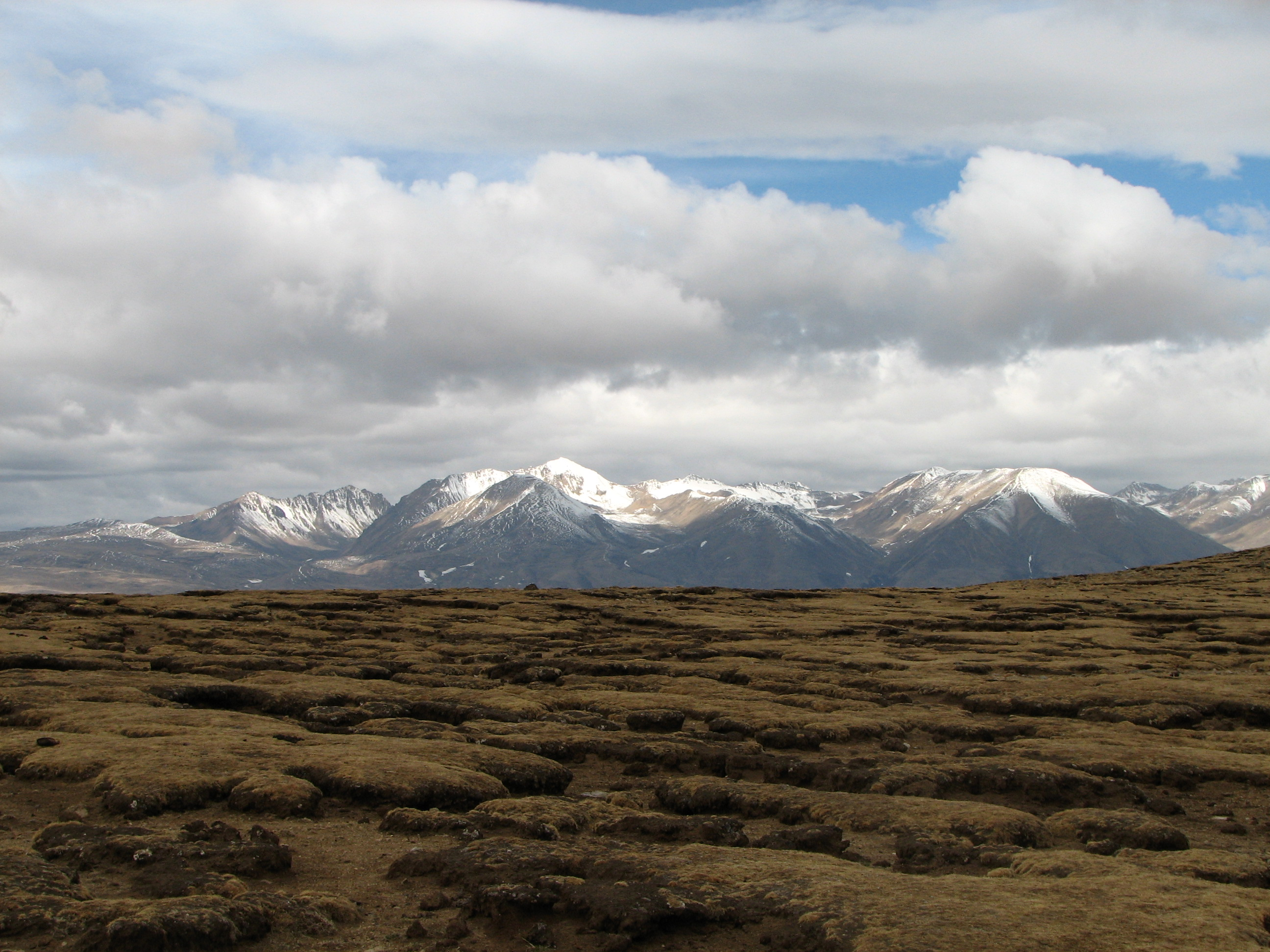 Trekking 3 days from Tsurpu Monastery to Yangpachen Monastery. The sun lights up the Nyenchen Tanglha mountains beyond the windswept hummocks of our plateau campsite.